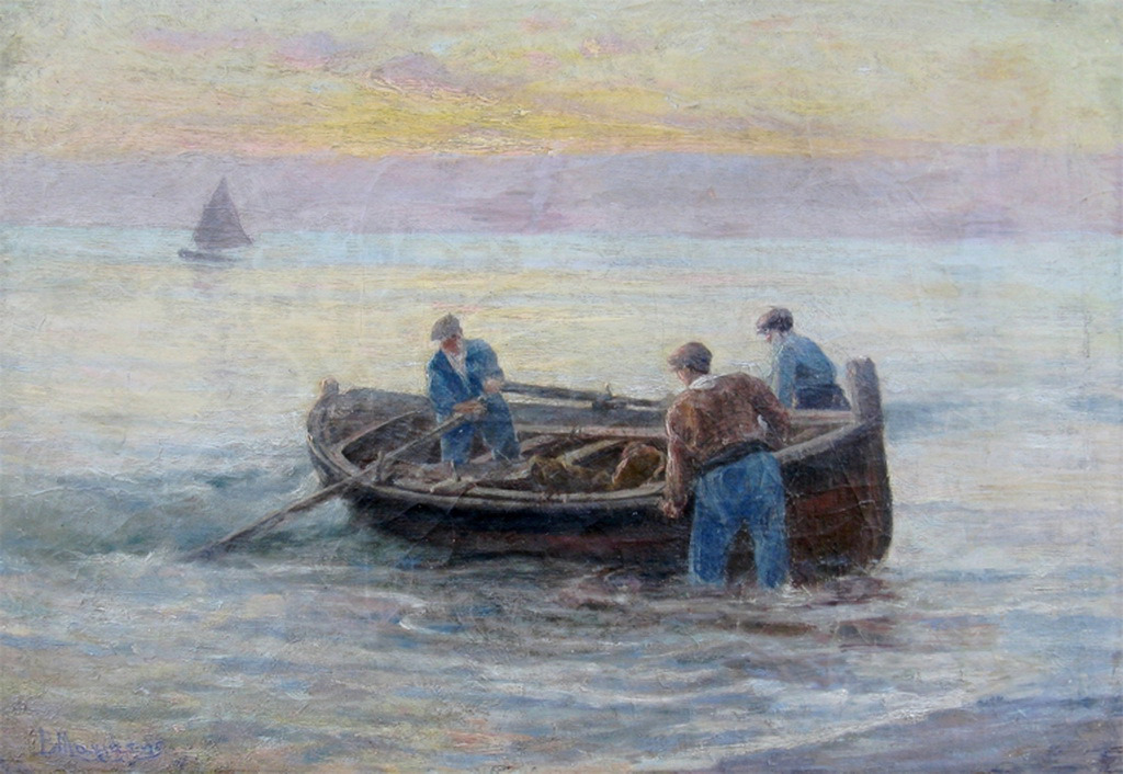 Fishermen